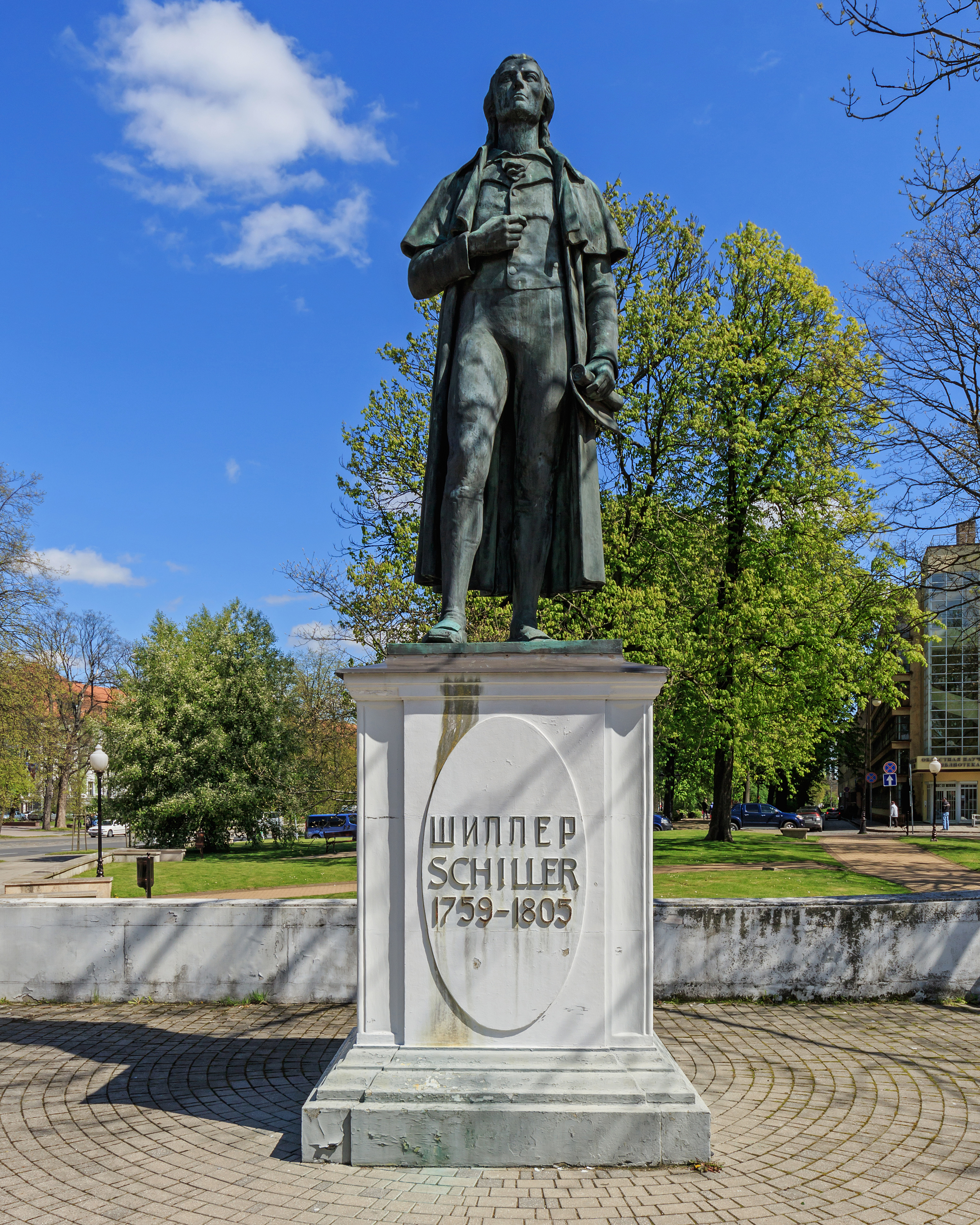 Stanislaus Cauer's Schiller monument in Kaliningrad formerly Königsberg, Kaliningrad Oblast (Russia).